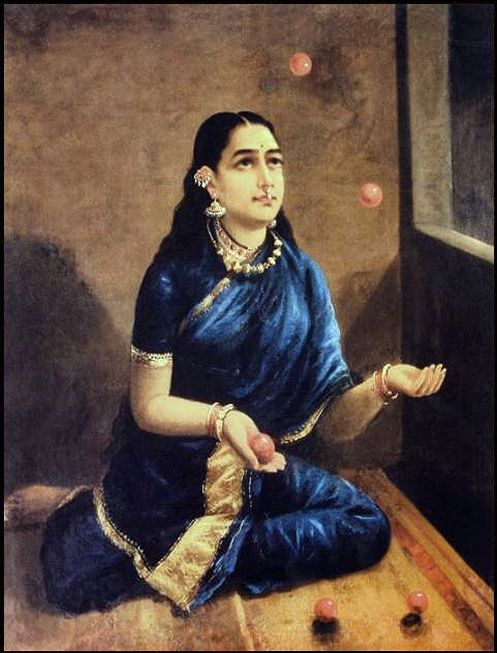 Painting of a lady juggling balls in the air.